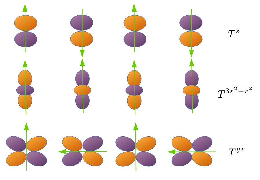 AFM ordering chains of different multipoles. Ref: Phys. Rev. B 90, 045148 (2014)